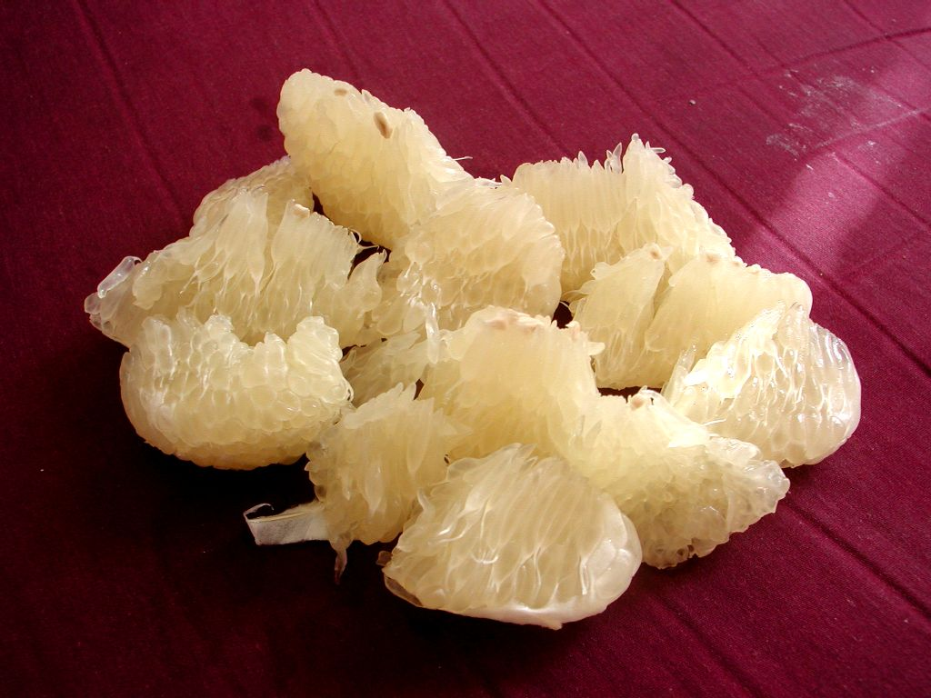 Pomelo flesh